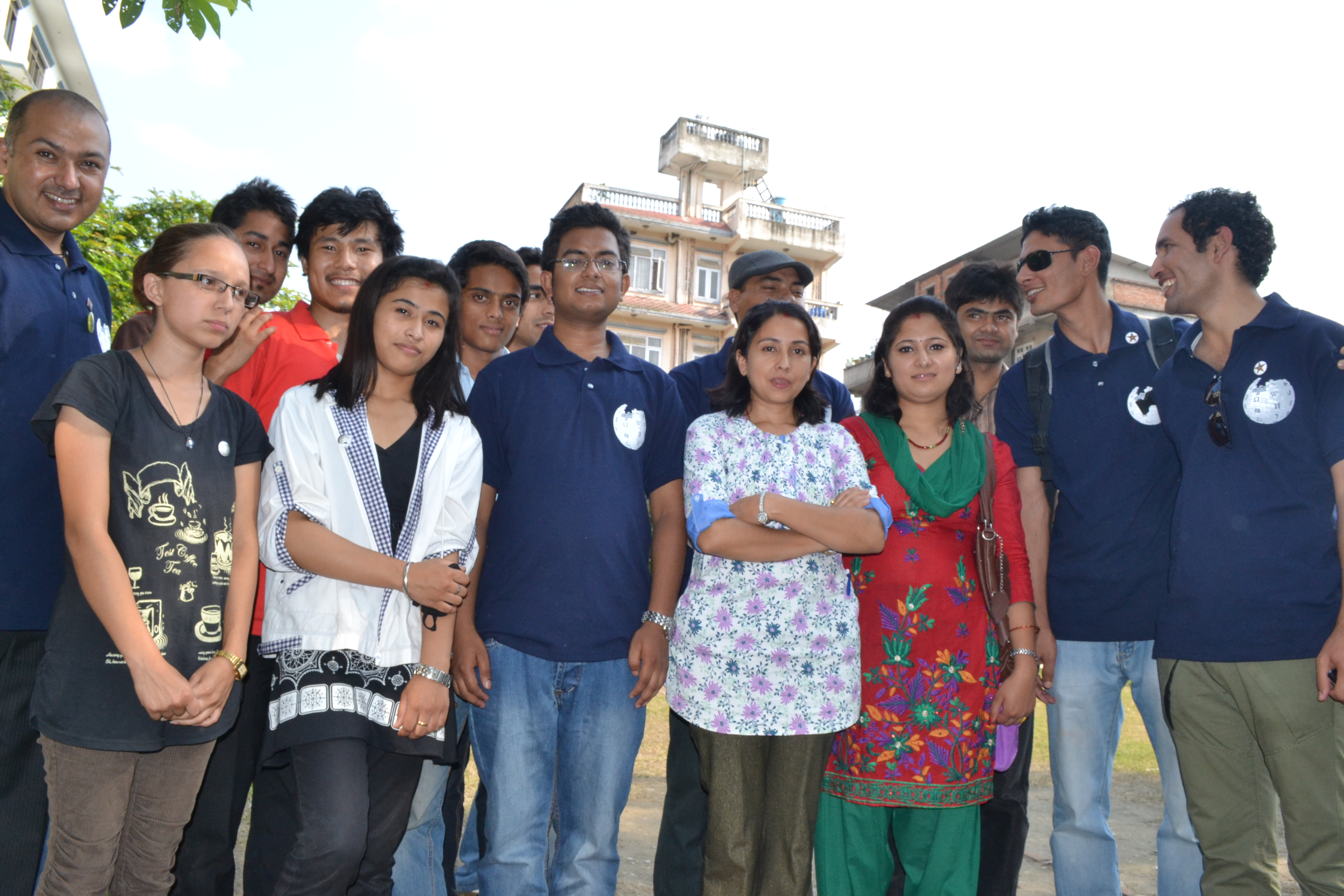 11th anniversary of Nepali Wikipedia .